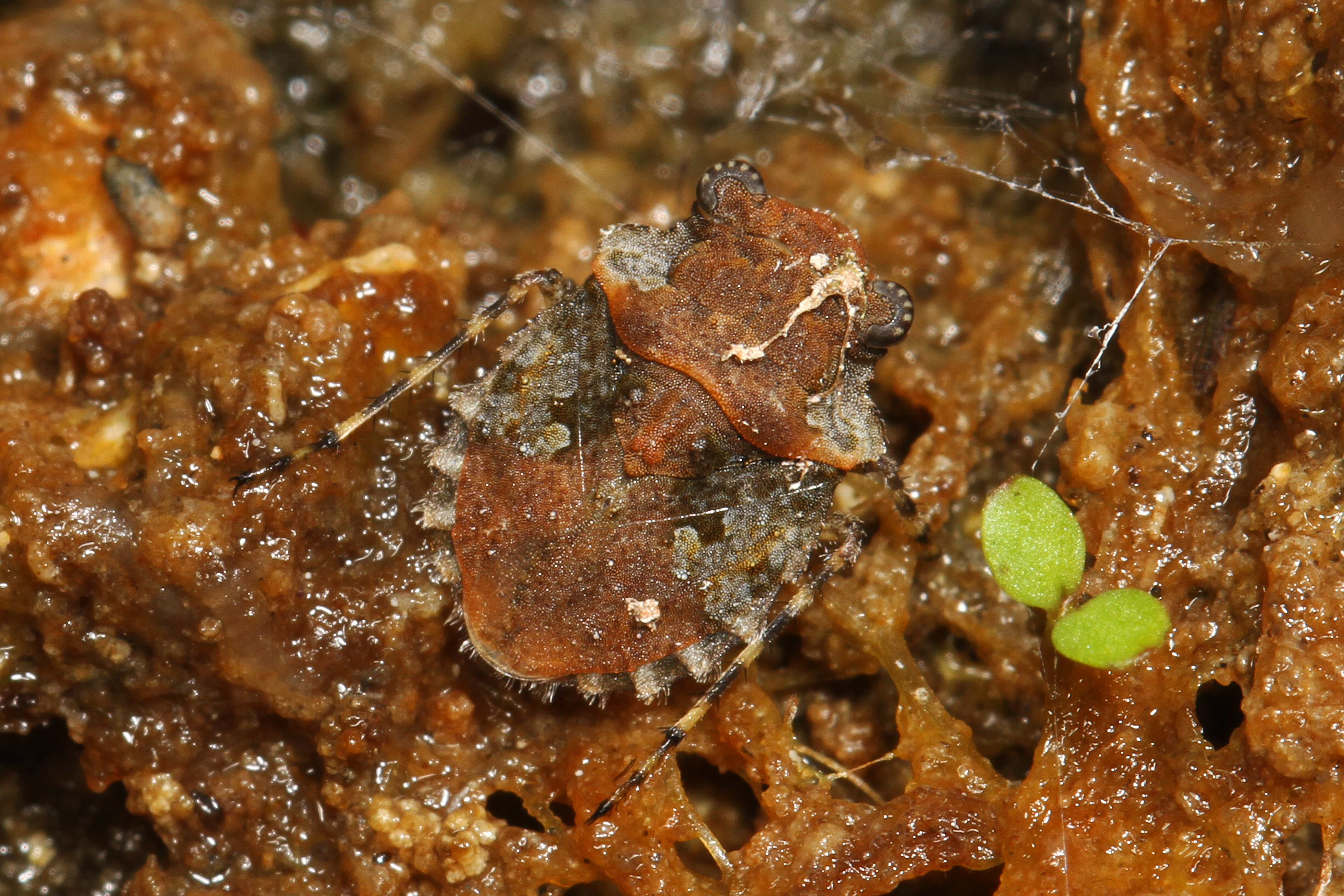 Big-eyed Toad Bug - Gelastocoris oculatus, Okaloacoochee Slough State Forest, Felda, Florida.